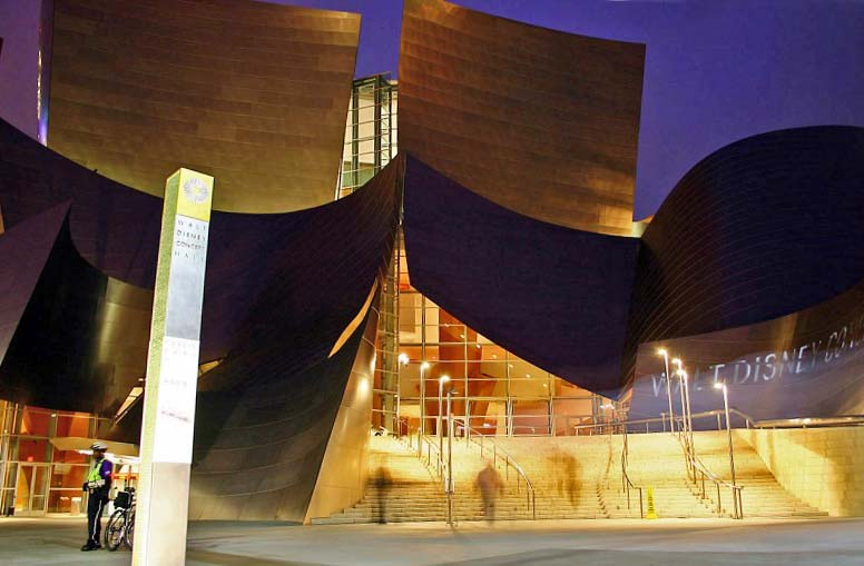 Walt Disney Concert Hall